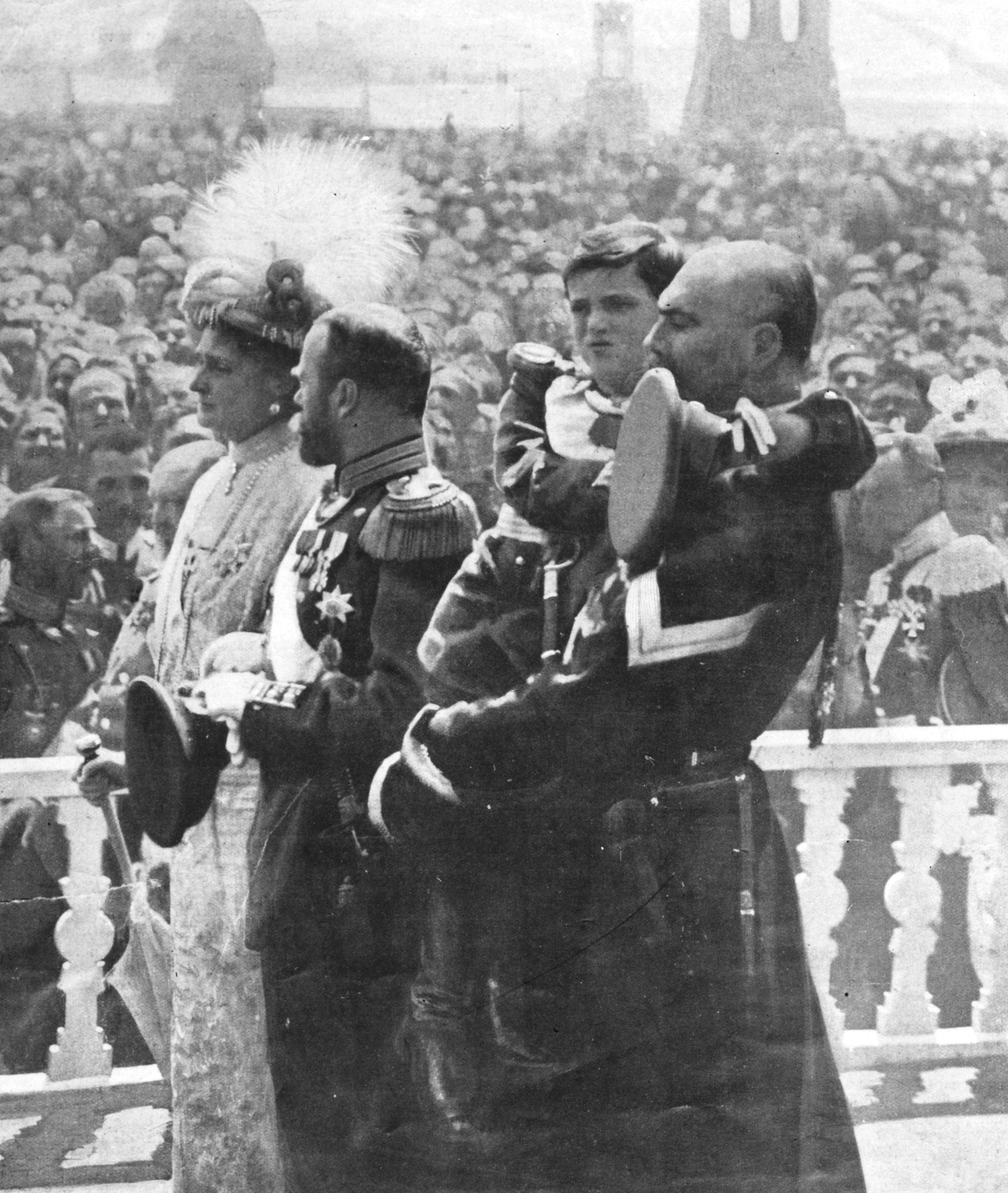 The last Emperor of Russia Nicholas II (centre) with his wife Empress Alexandra and their son Alexei (being held by a Cossack) during celebrations at the Moscow Kremlin to mark the Romanov family's 300 years in power, 1913.